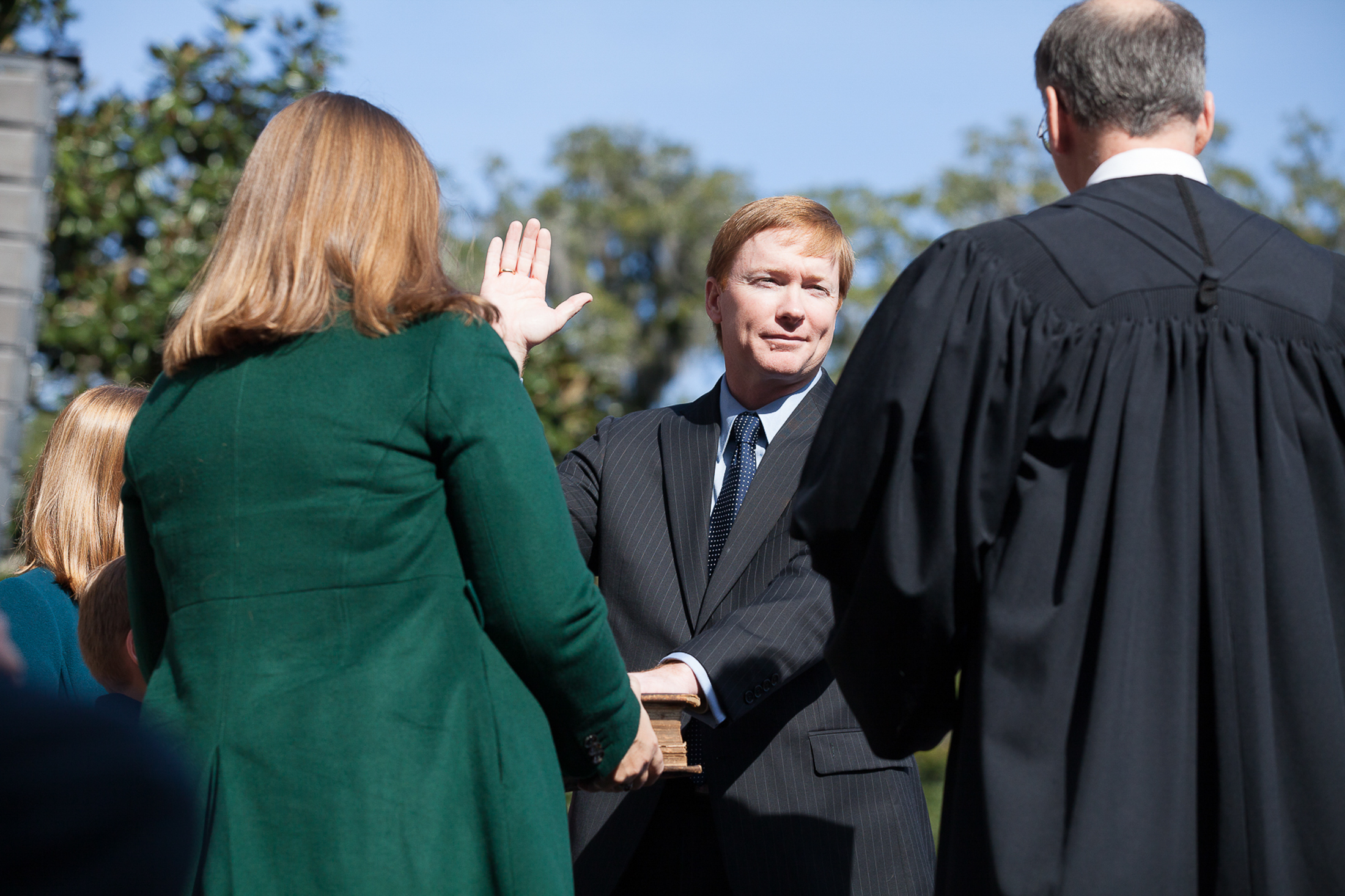 Adam Putnam is sworn in for a second term